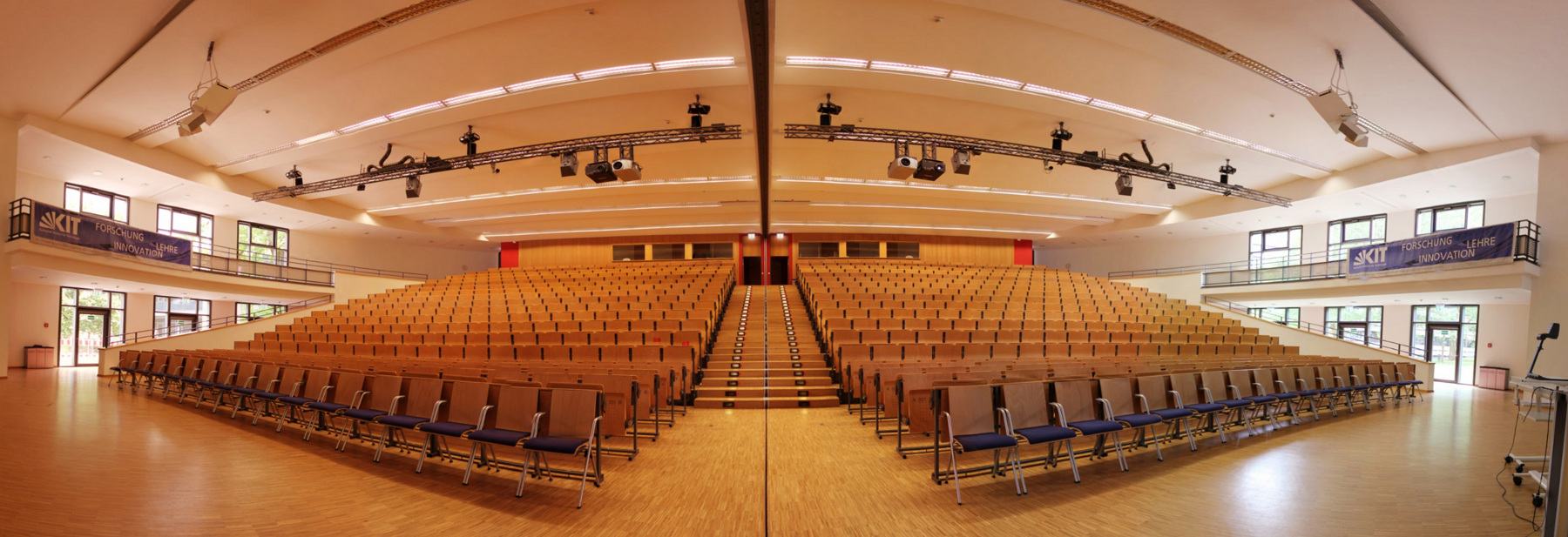 Panorama created with 40 Pictures. Software: Halcon. Authors: Vincent POINSIGNON, Michel MULLER and Elise LACHAT